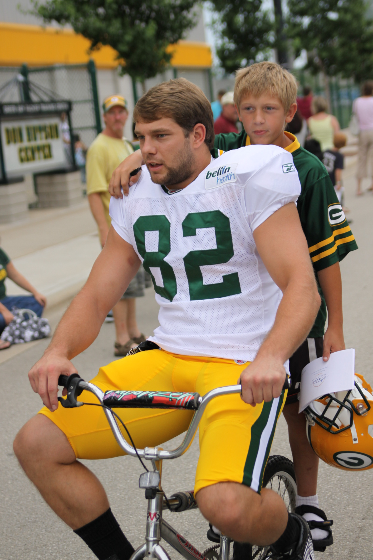 Green Bay Packer Rookie Tight End Ryan Taylor, riding a fan's bicycle at training camp, August 1, 2011, Green Bay, WI